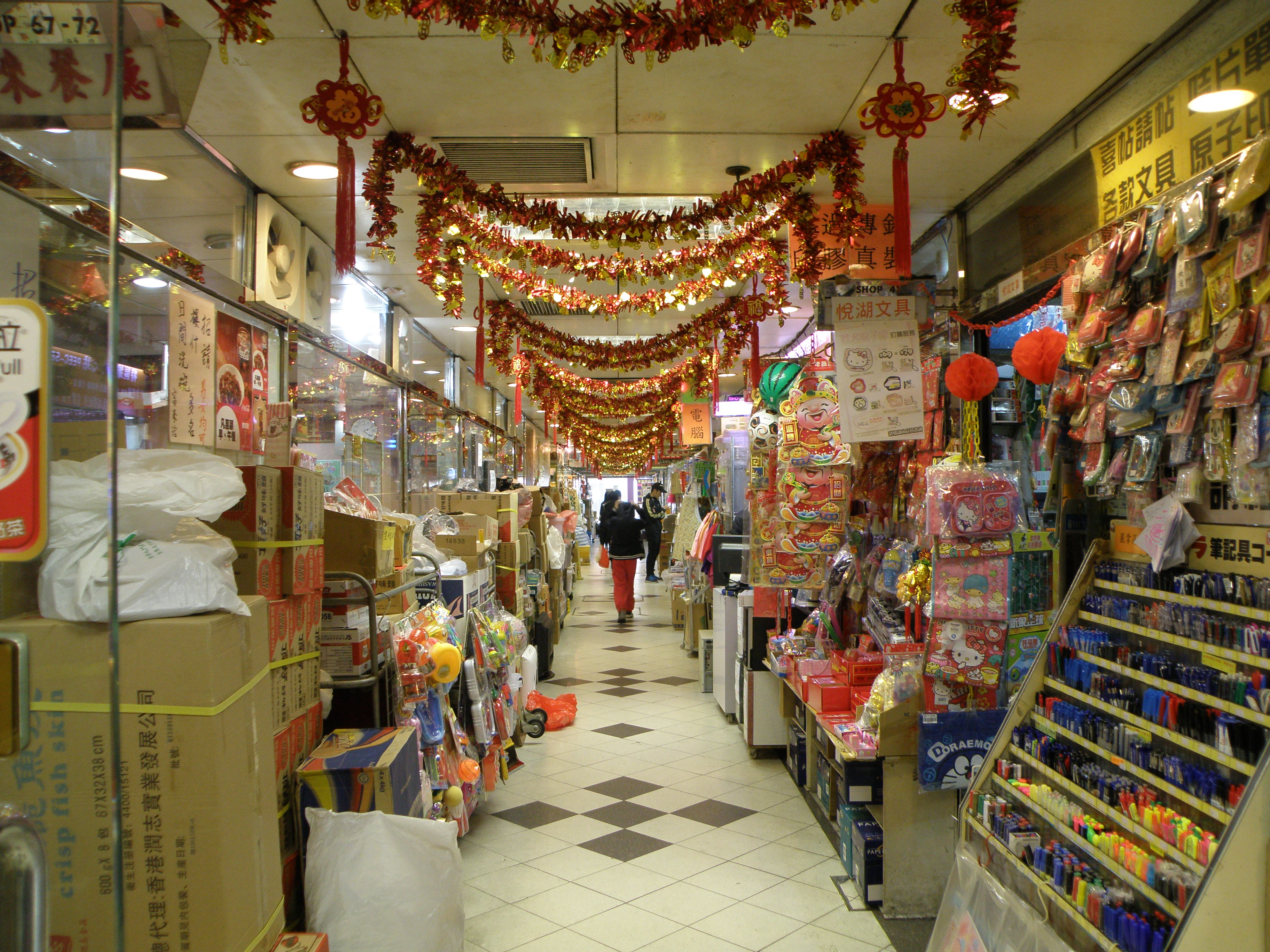 Yuet Wu Shopping Centre in Tuen Mun, Hong Kong.